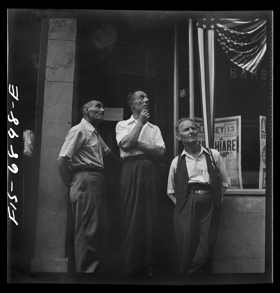 New York, New York. Italian-Americans in the rain watching a flag raising ceremony in honor of the feast of San Rocco at right